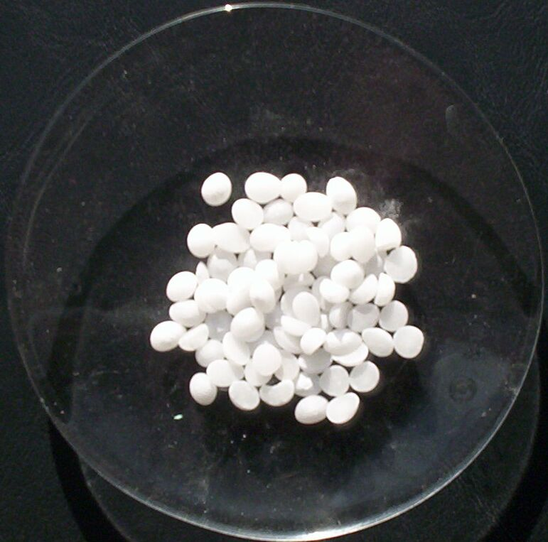 A sample of potassium hydroxide pellets. Picture taken by User:Walkerma, March 2006.